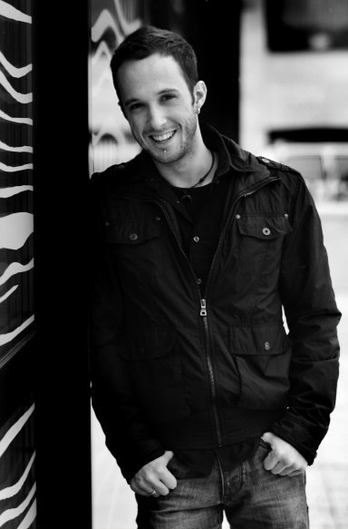 Vukasin Brajic